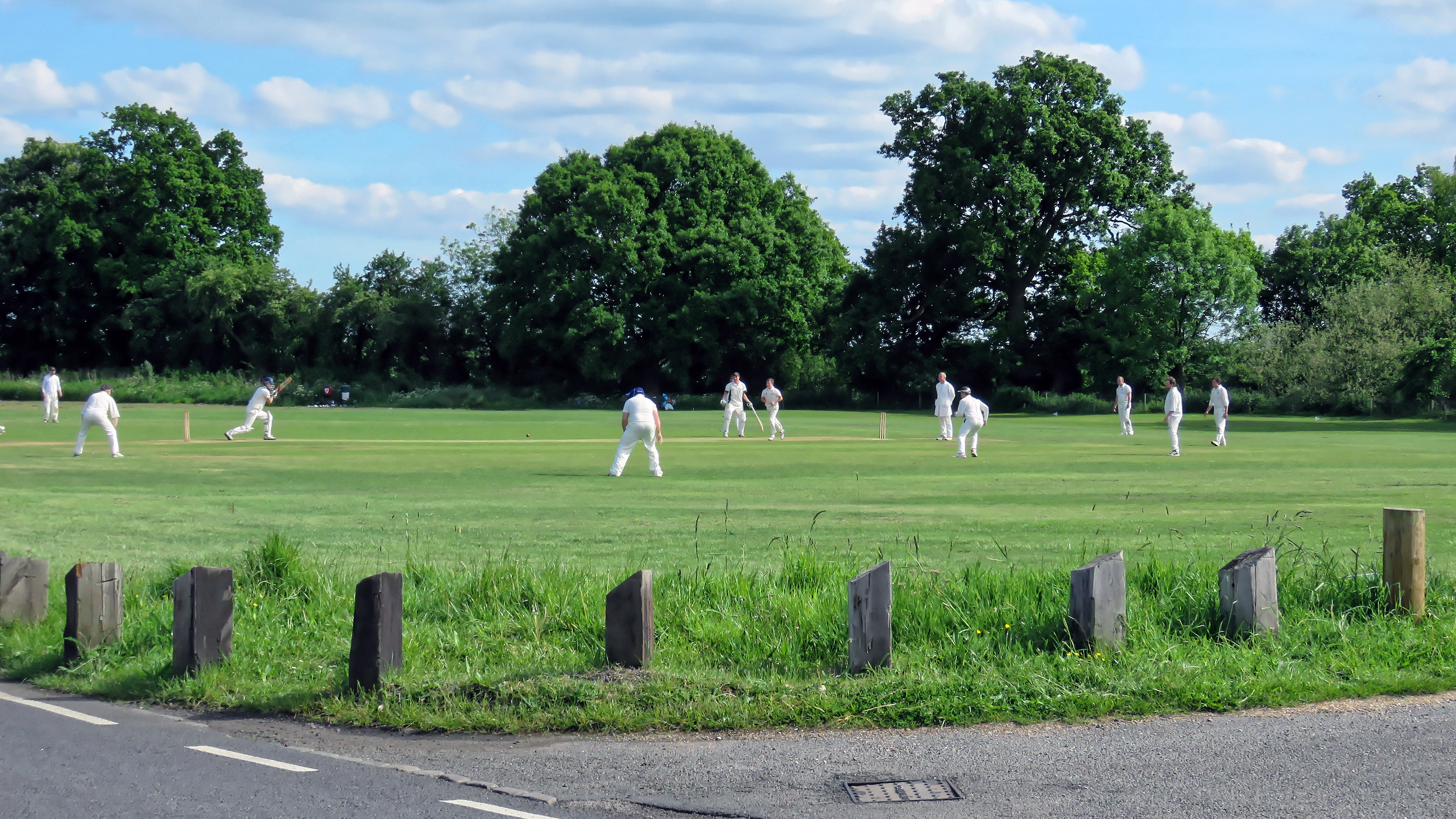 A Sunday cricket match between Hatfield Heath CC Friendly XI and Netteswell & Burnt Mill CC Sunday XI (Hatfield Heath batting), on the village green of Hatfield Heath, Essex, England.Hatfield Heath CC First XI play in the Herts and Essex Cricket League Division 2 (2017); Netteswell & Burnt Mill CC (The Millers), based at Harlow Cricket Club, is a social team for playing friendly matches.Camera: Canon PowerShot SX60 HSSoftware: File lens-corrected, optimized, perhaps cropped, with DxO OpticsPro 11 Elite, and likely further optimized with Adobe Photoshop CS2.